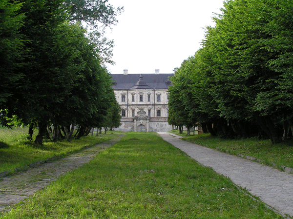 The castle in Podhorce (Ukraine).